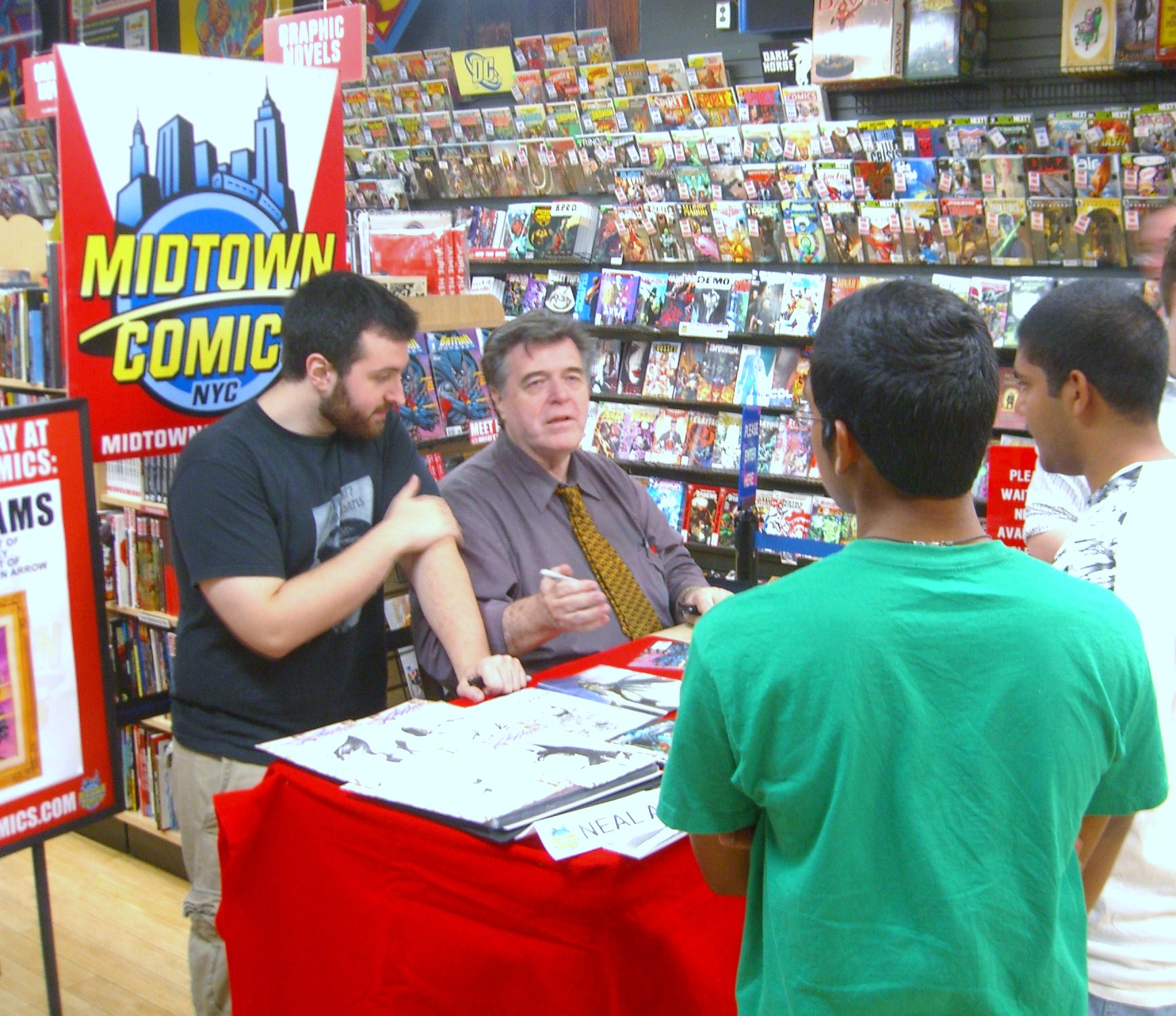 Comic book creators Neal Adams (seated) and Josh Adams at a signing for Batman: Odyssey #1 at Midtown Comics Times Square, July 10, 2010. Photo by Luigi Novi. This photo may be used and modified, for any purpose, only if the photographer is visibly credited in each instance in which it is used. (See licensing information below.) For more information on my photos, you can contact me here.